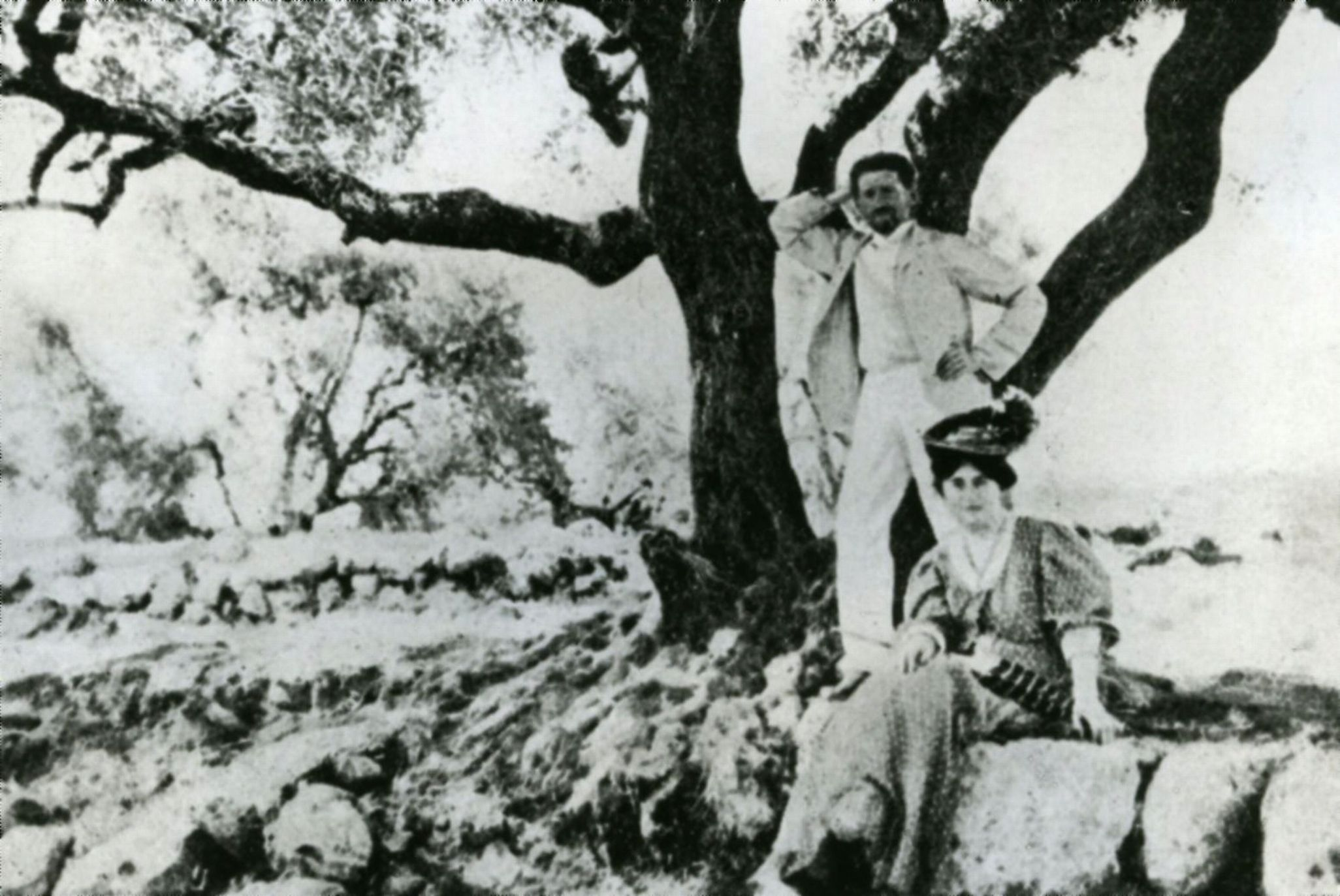 Eliezer Ben-Yehuda with his second wife, Hemda nee Jonas